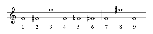 Example of music accidentals